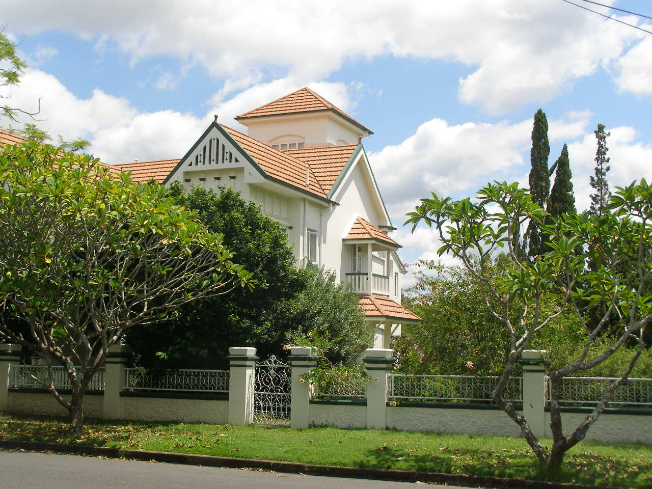 The Gables, 15 Molonga Terrace, Graceville, Brisbane, Queensland, Australian - built by Walter Taylor